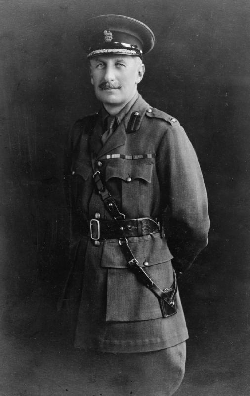 Victoria Cross Winners- Pre 1914. Portrait of The Hon Alexander Gore Arkwright (later The Earl of Gowrie) Hore-Ruthven, awarded the Victoria Cross: Sudan, 22 September 1898.